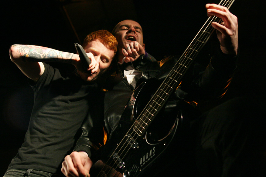 Gallows performing at the Uni-On music festival in Scarborough, 2007.